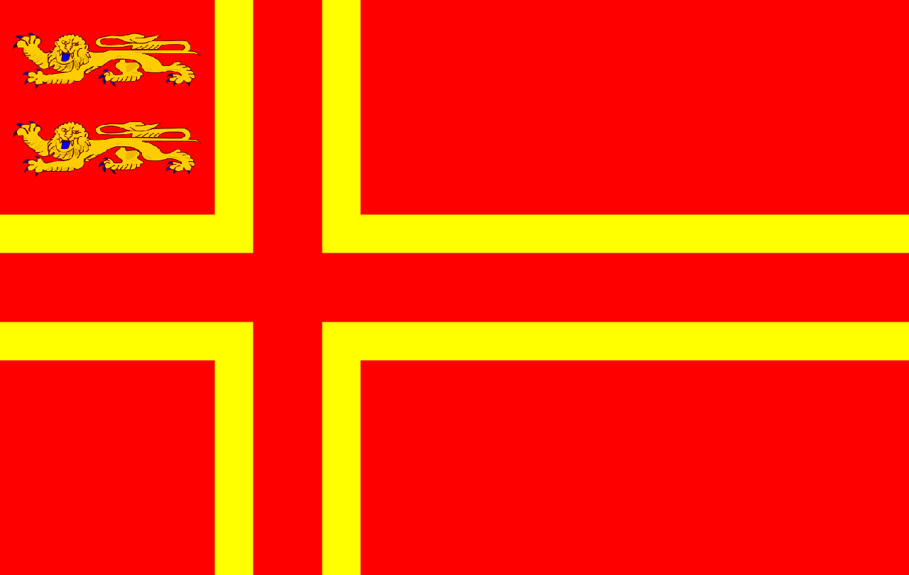 Flag of Normandy with the Cross of Saint-Olaf and the "p'tits cats".